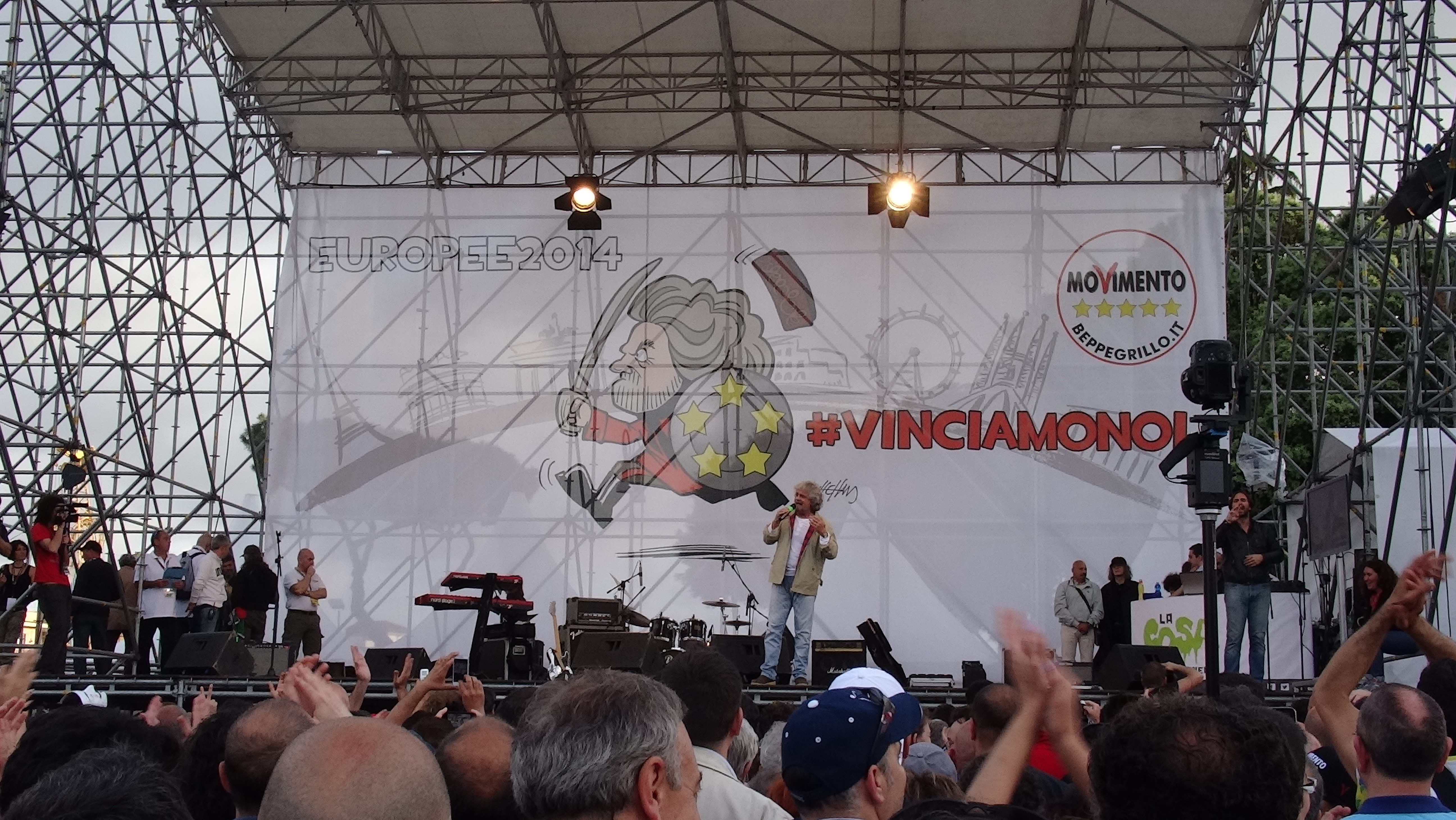 Beppe Grillo in piazza san giovanni in laterano 23 maggio 2014